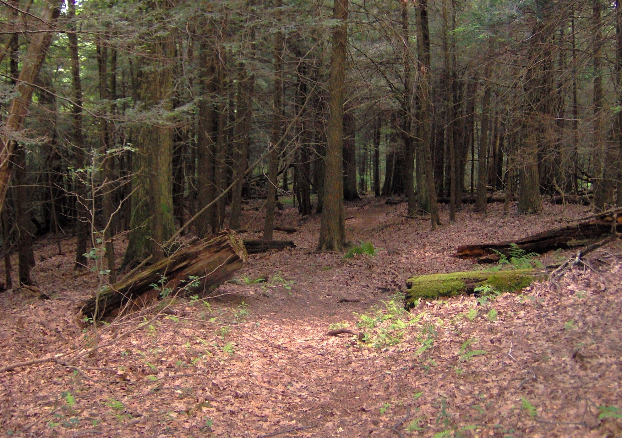 A mixed pine and hardwood forest near the crest of Brush Mountain along Trail #54A in the Citico Creek Wilderness, in the southeastern United States.